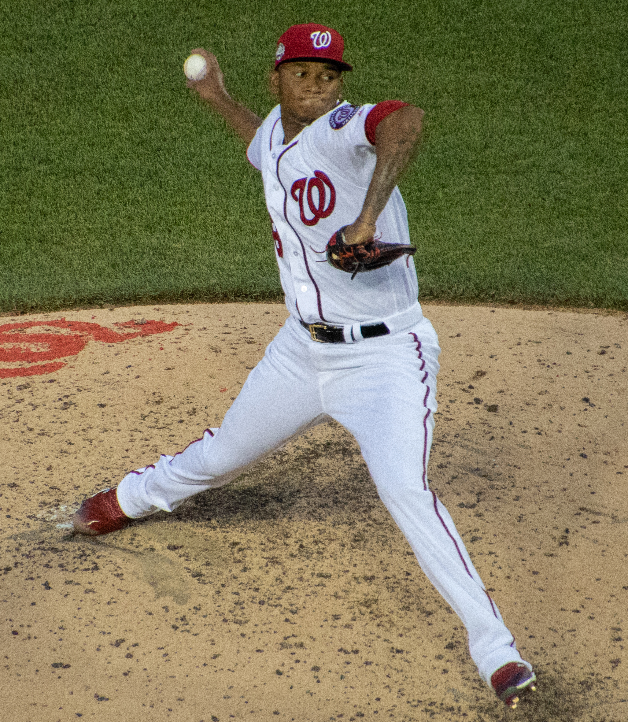 Jefry Rodriguez of the Washington Nationals delivers a pitch during a July 2018 game at Nationals Park in Washington, D.C.